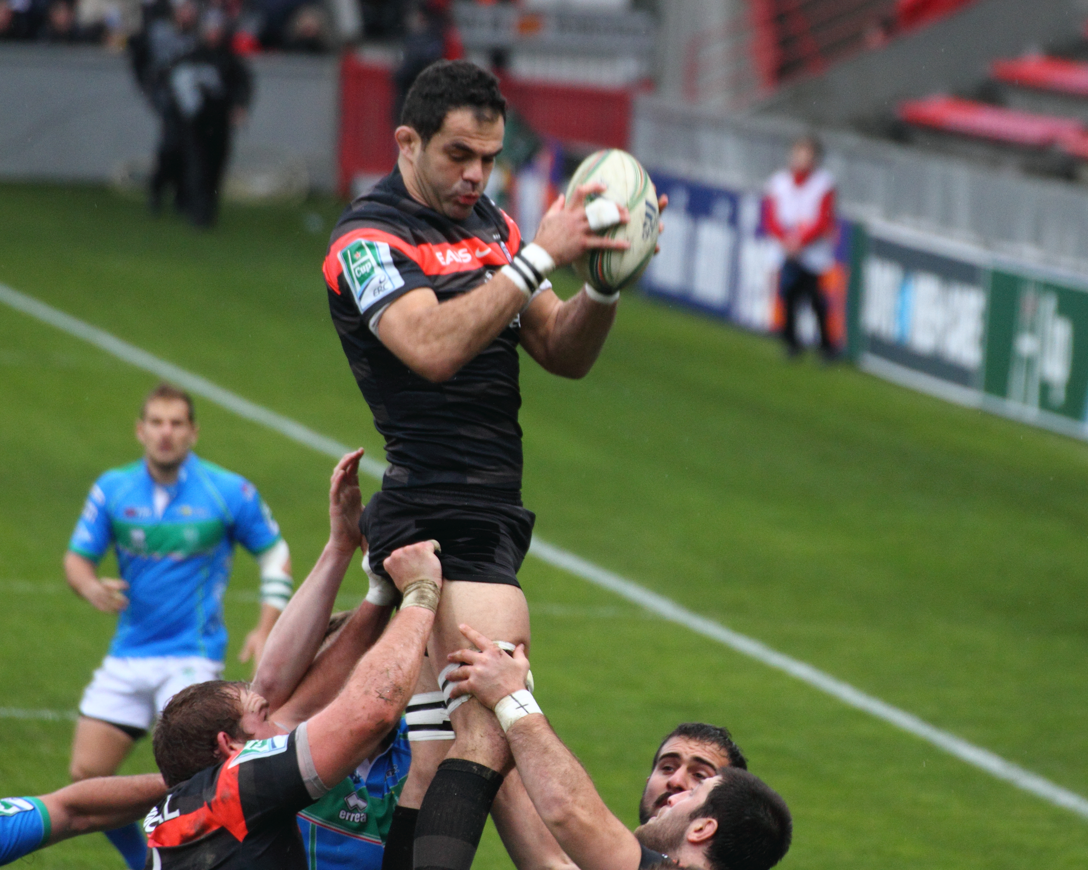 Heineken Cup — 13 January 2013, Stade Ernest-Wallon. Match between: Stade toulousain — Benetton Rugby Treviso